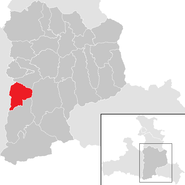 District Sankt Johann im Pongau